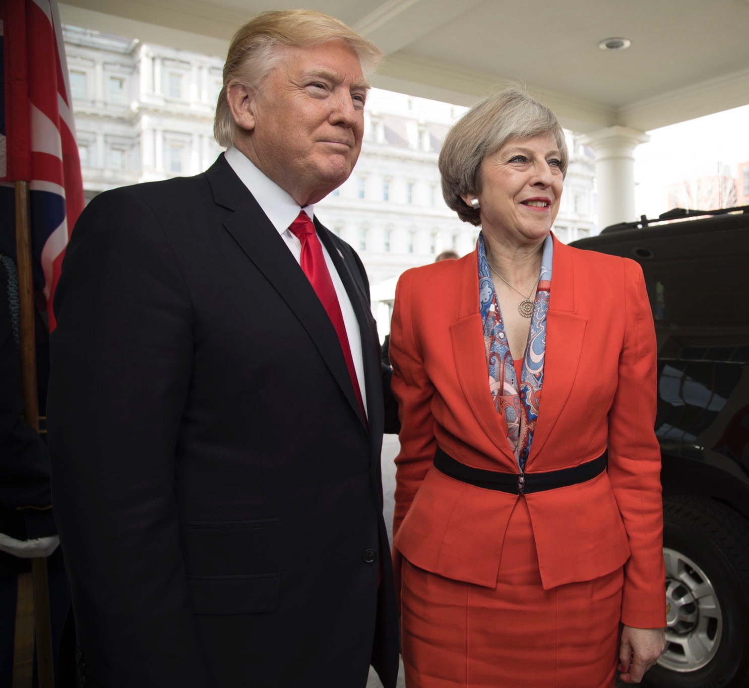 President Donald Trump greets British Prime Minister Theresa May upon her arrival, Friday, Jan. 27, 2017, to the West Wing entrance of the White House in Washington, D.C. (Official White House Photo by Shealah Craighead)